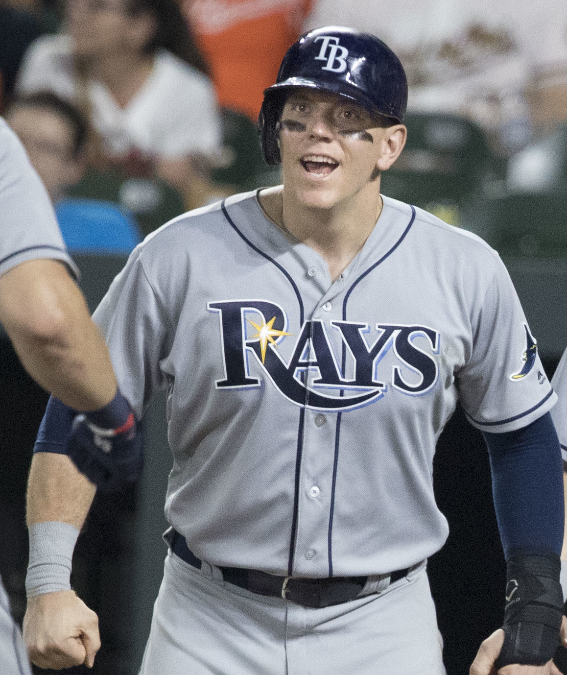 Rays at Orioles 6/30/17